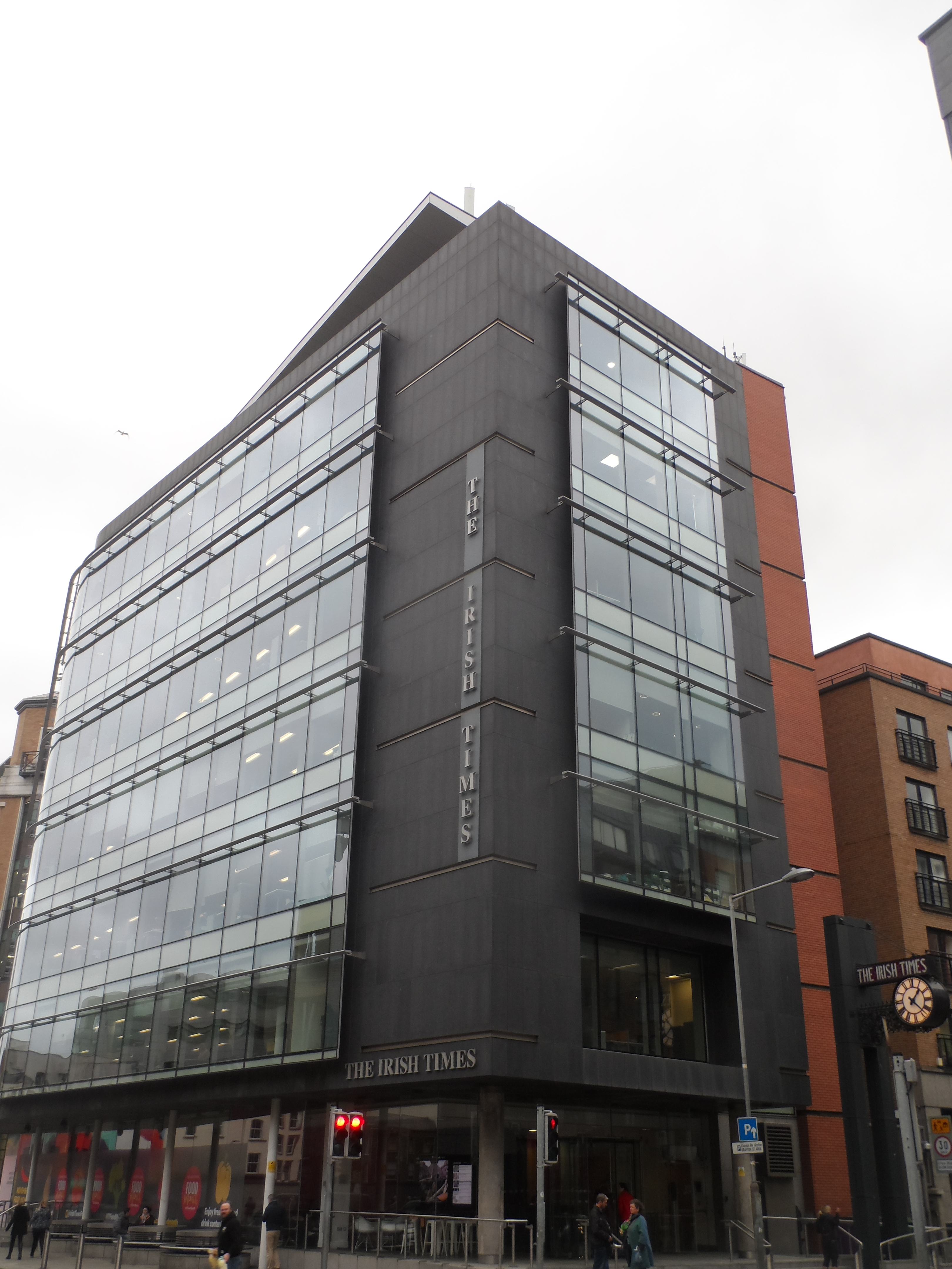 The Irish Times building, Dublin